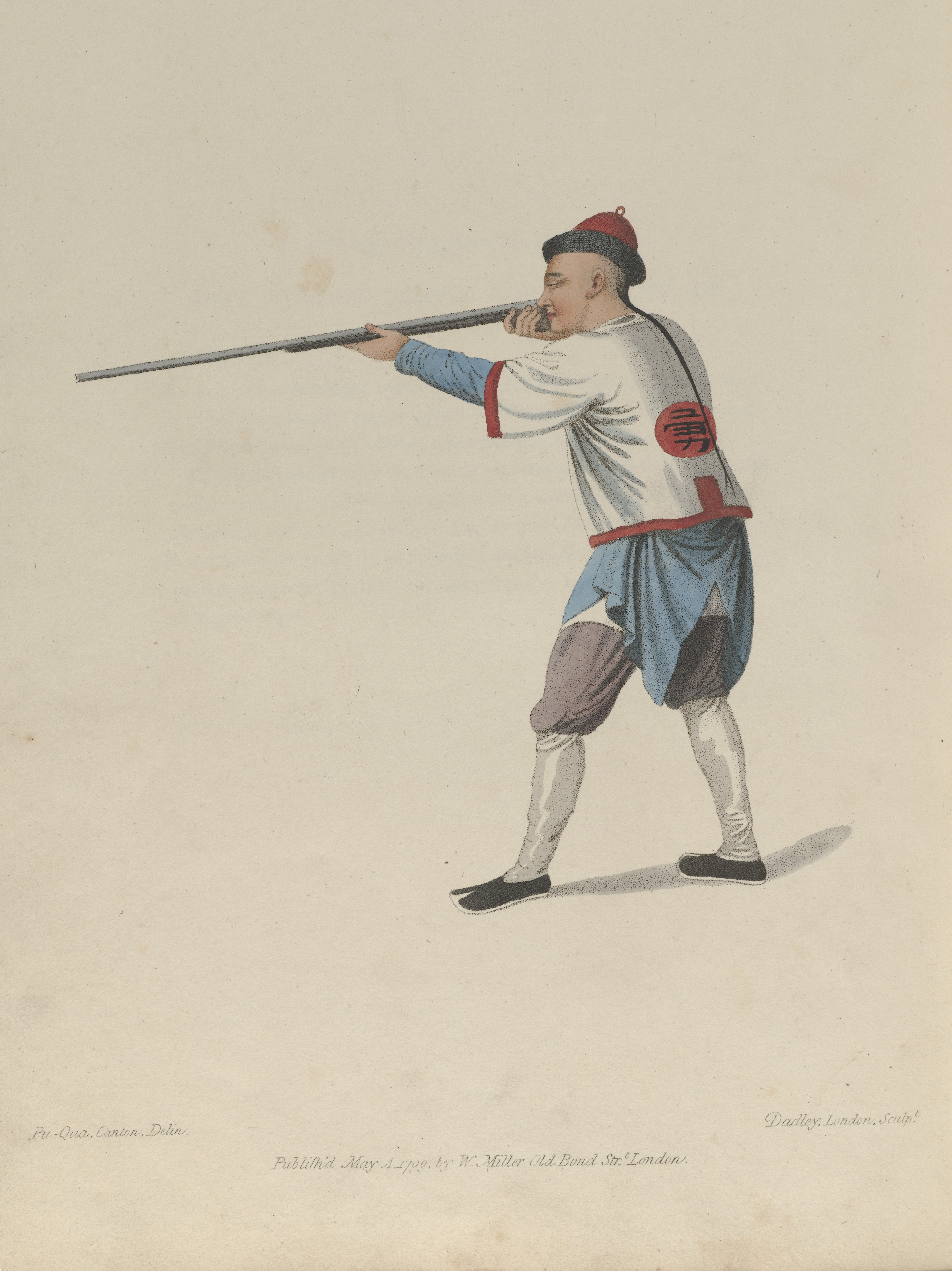 A Chinese soldier Rare Books Keywords: Clothing; Clothes